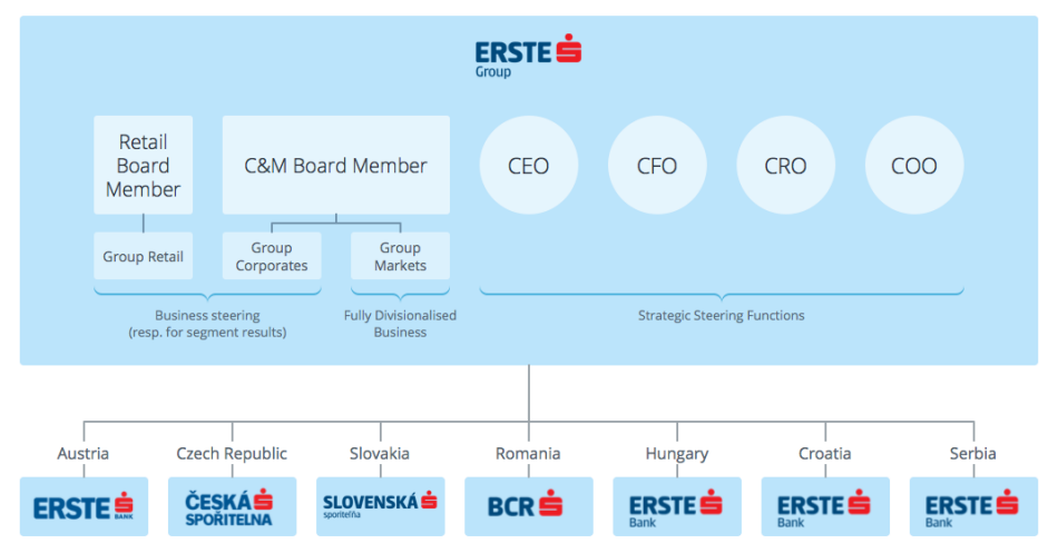 Erste Group Structure